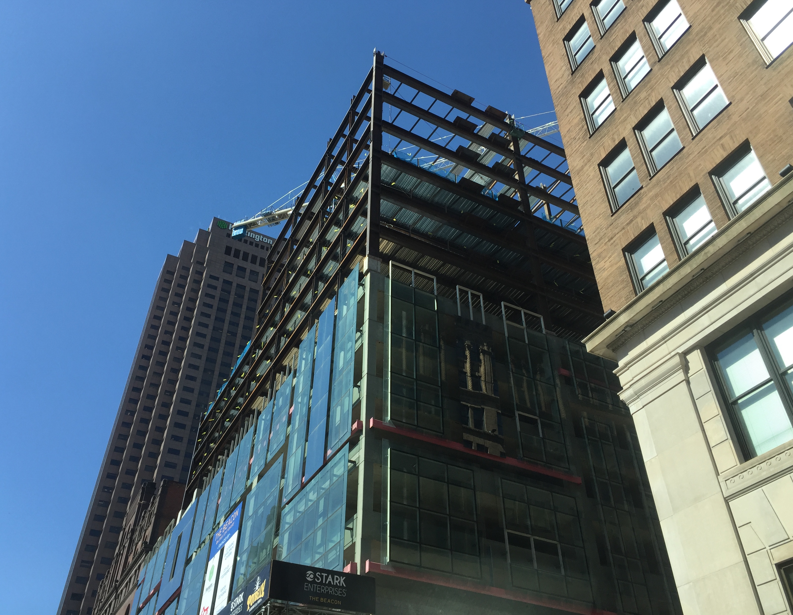 Beacon 515 Euclid Ave Cleveland Ohio March 2018 Stark Enterprises under construction